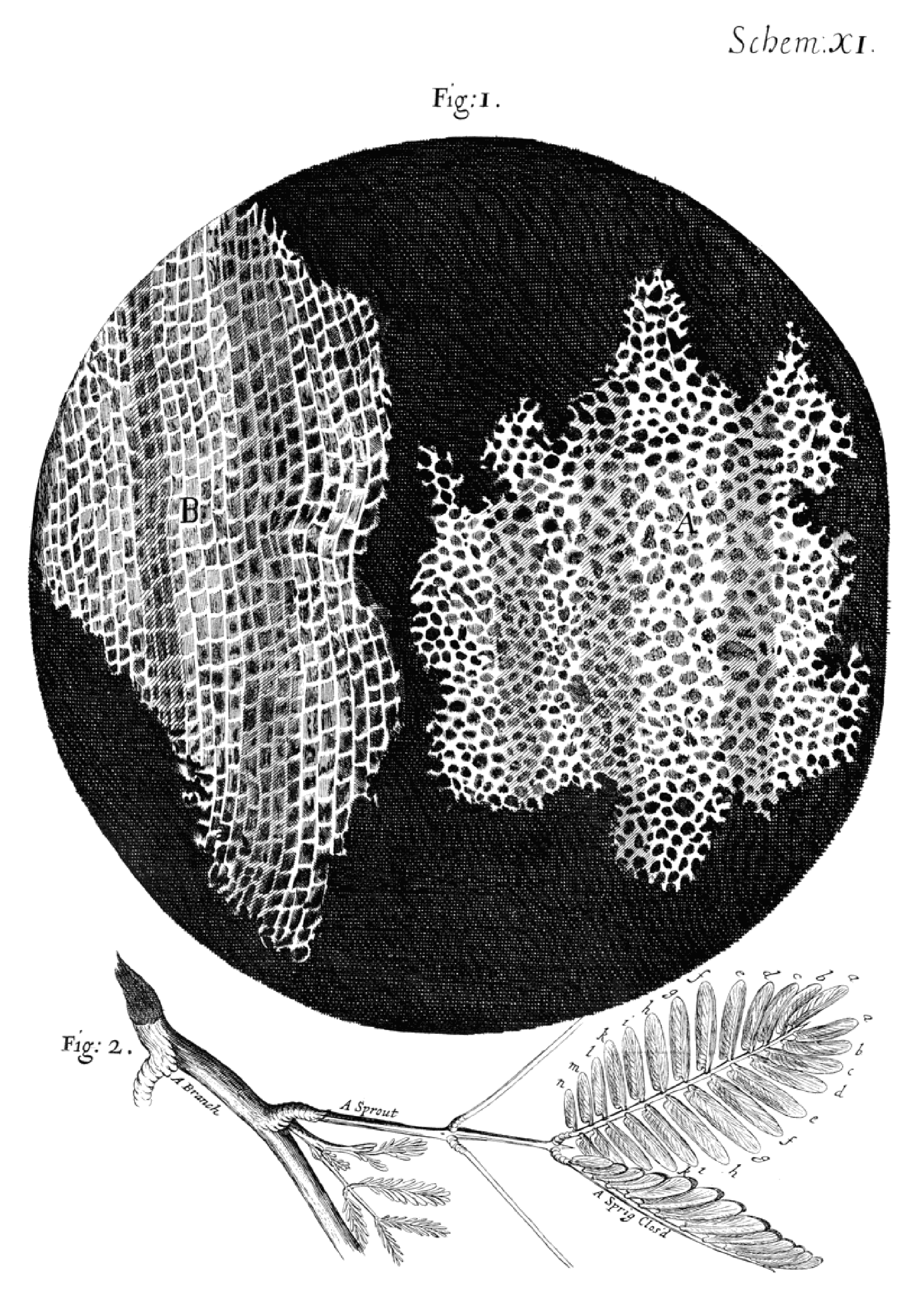 Scheme 11